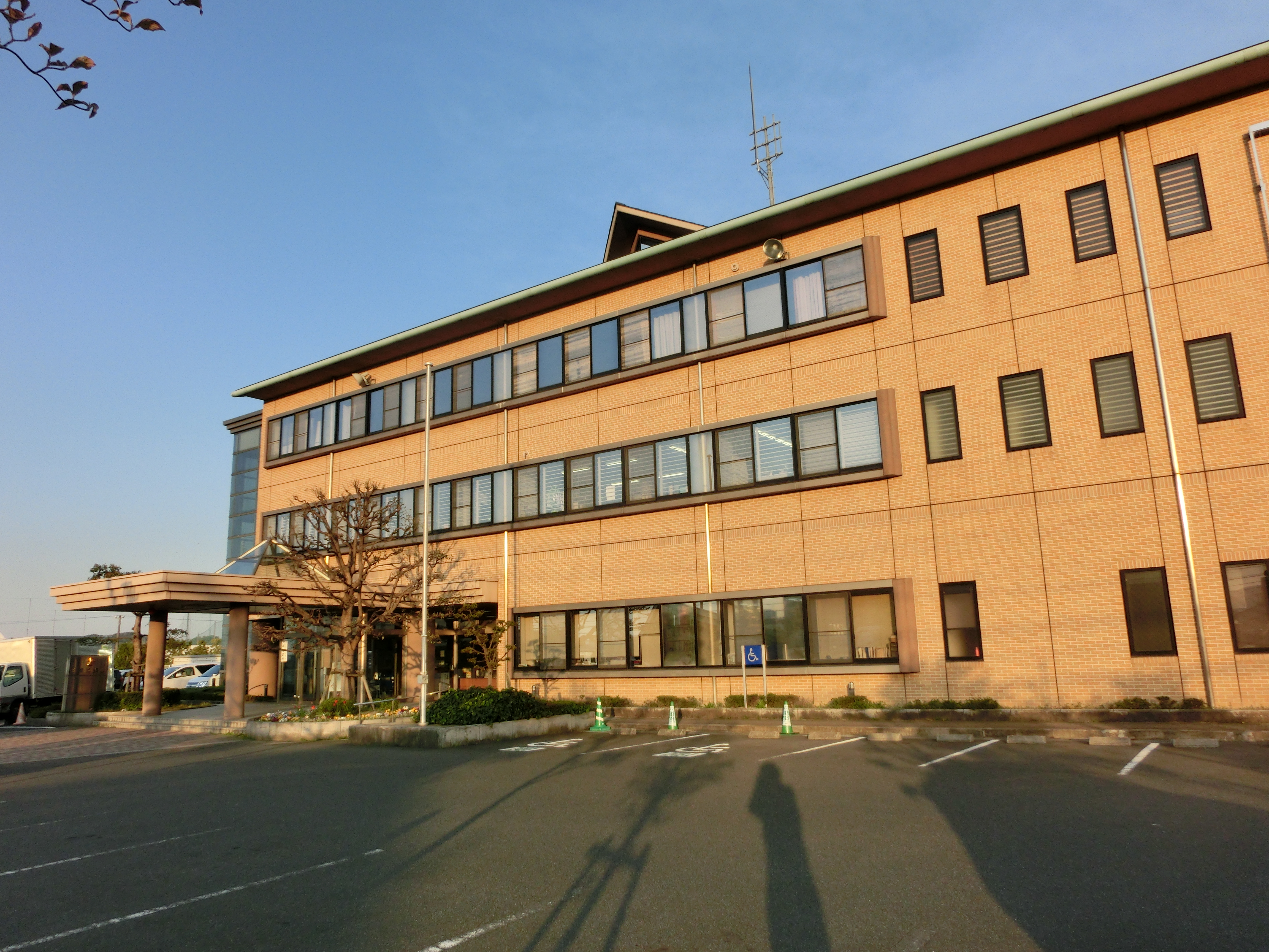 Nabari Police Station